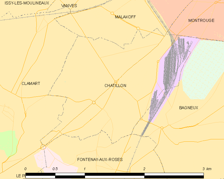 Map of French municipality Châtillon